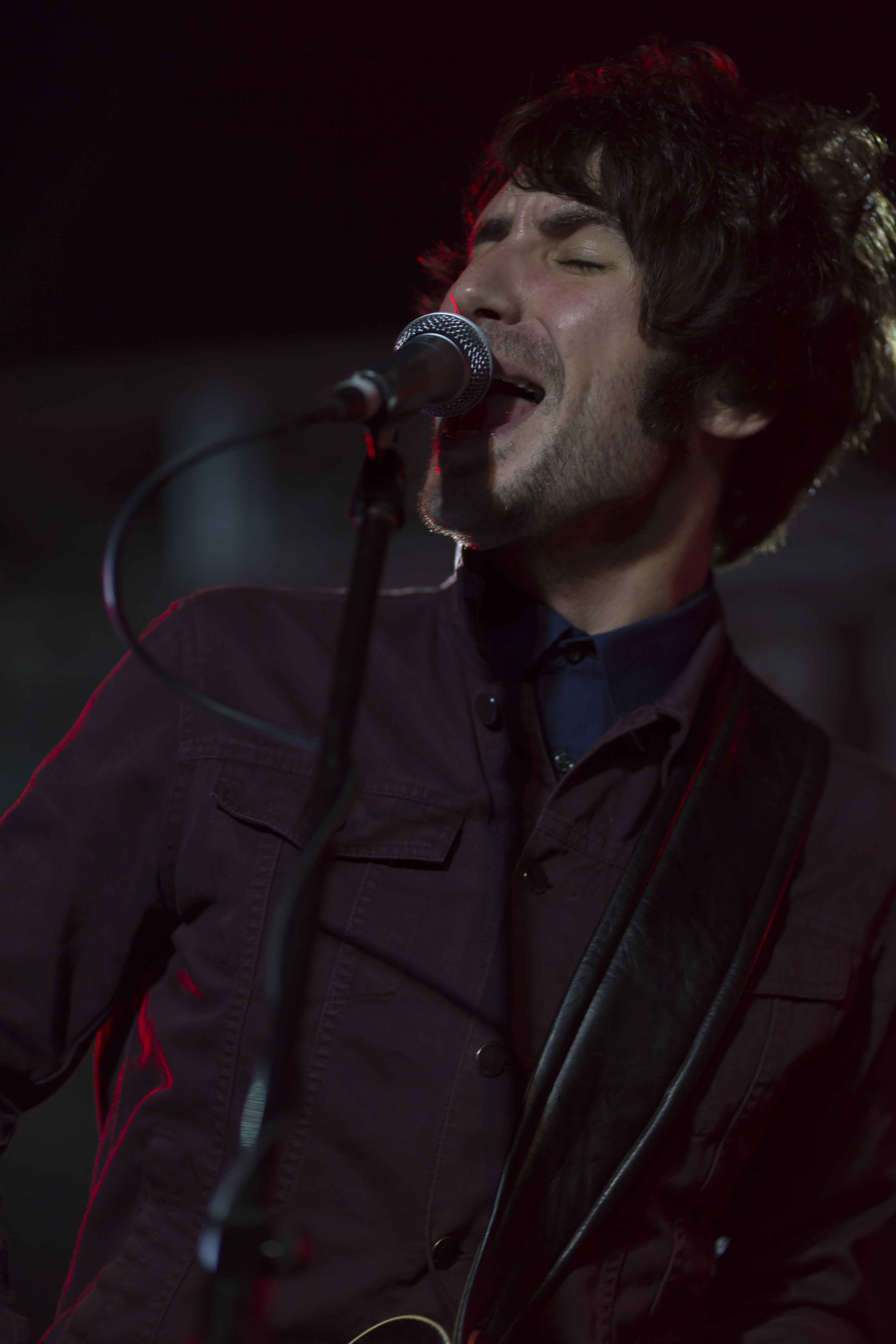 "You Am I", May 2, 2015